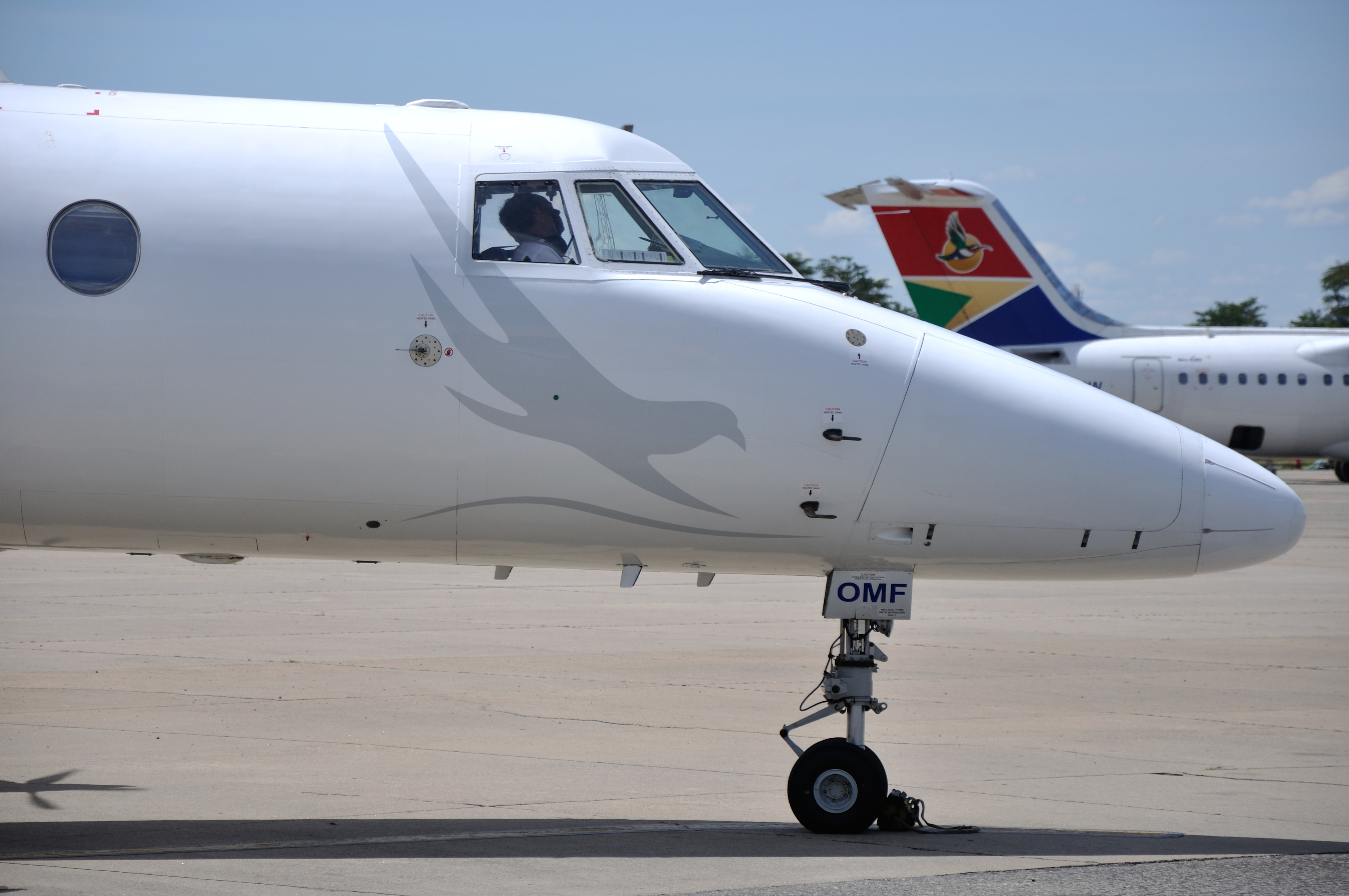 Zambia, spotting at Ndola International Airport